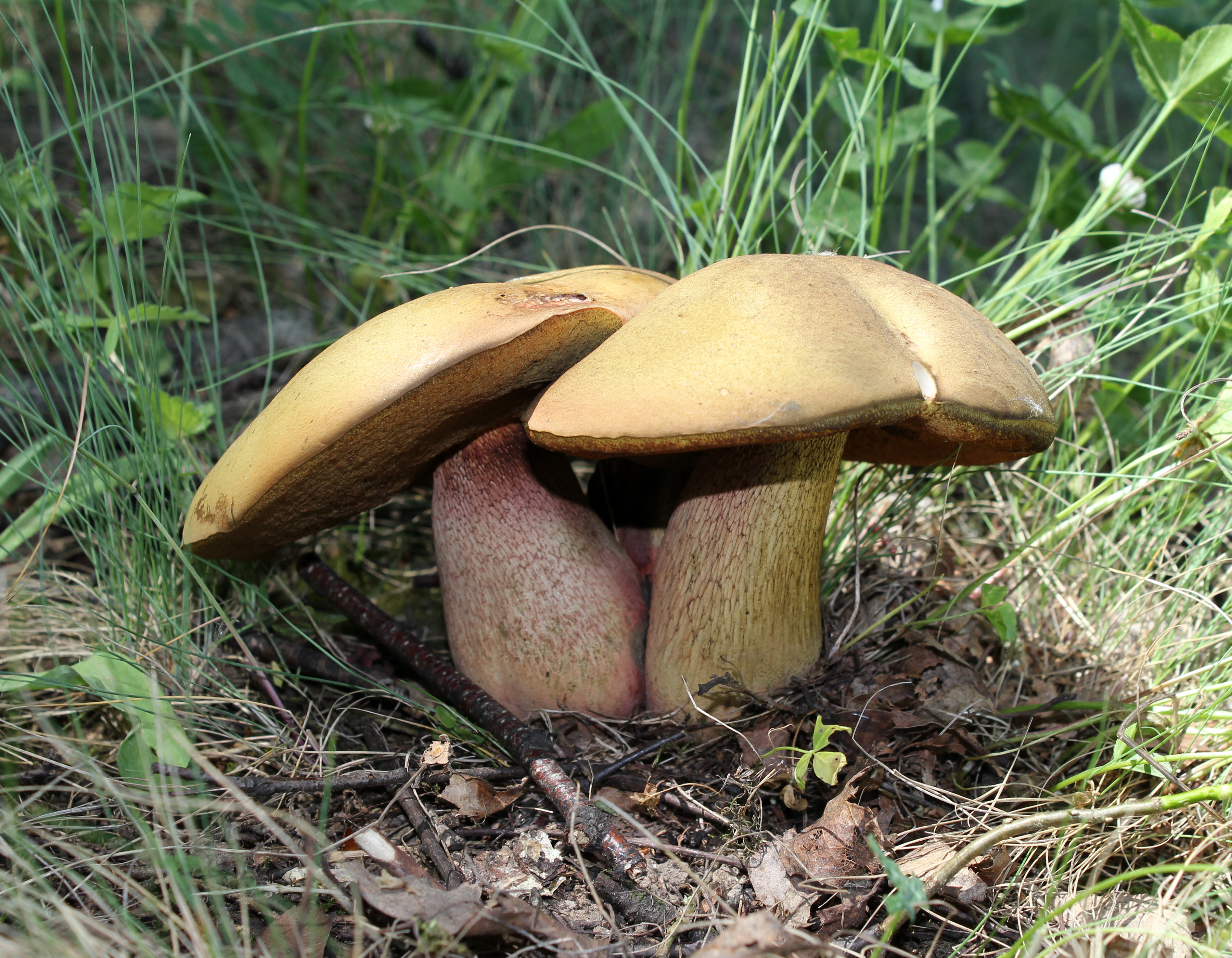 Lurid bolete (Boletus luridus). Ukraine.